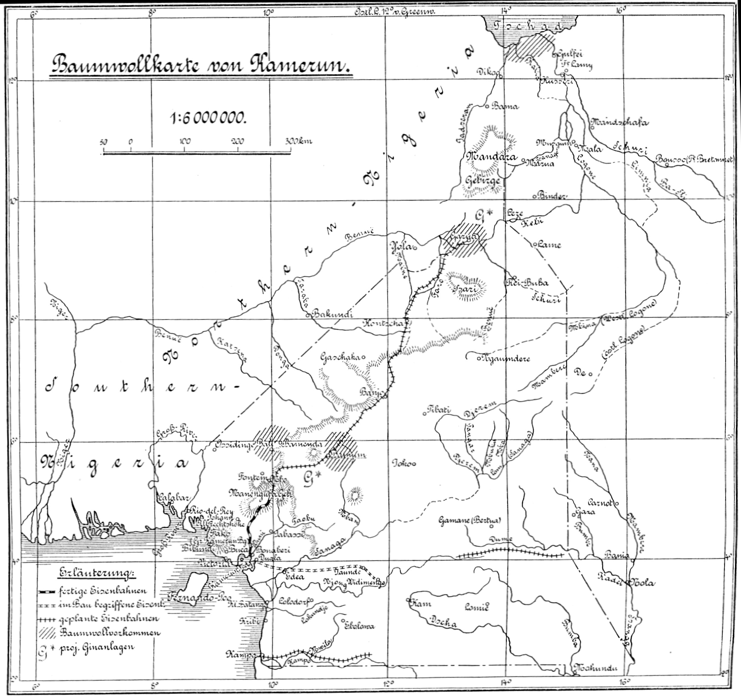 German map for cotton cultivation in the former German colony Cameroon by 1909/1910.